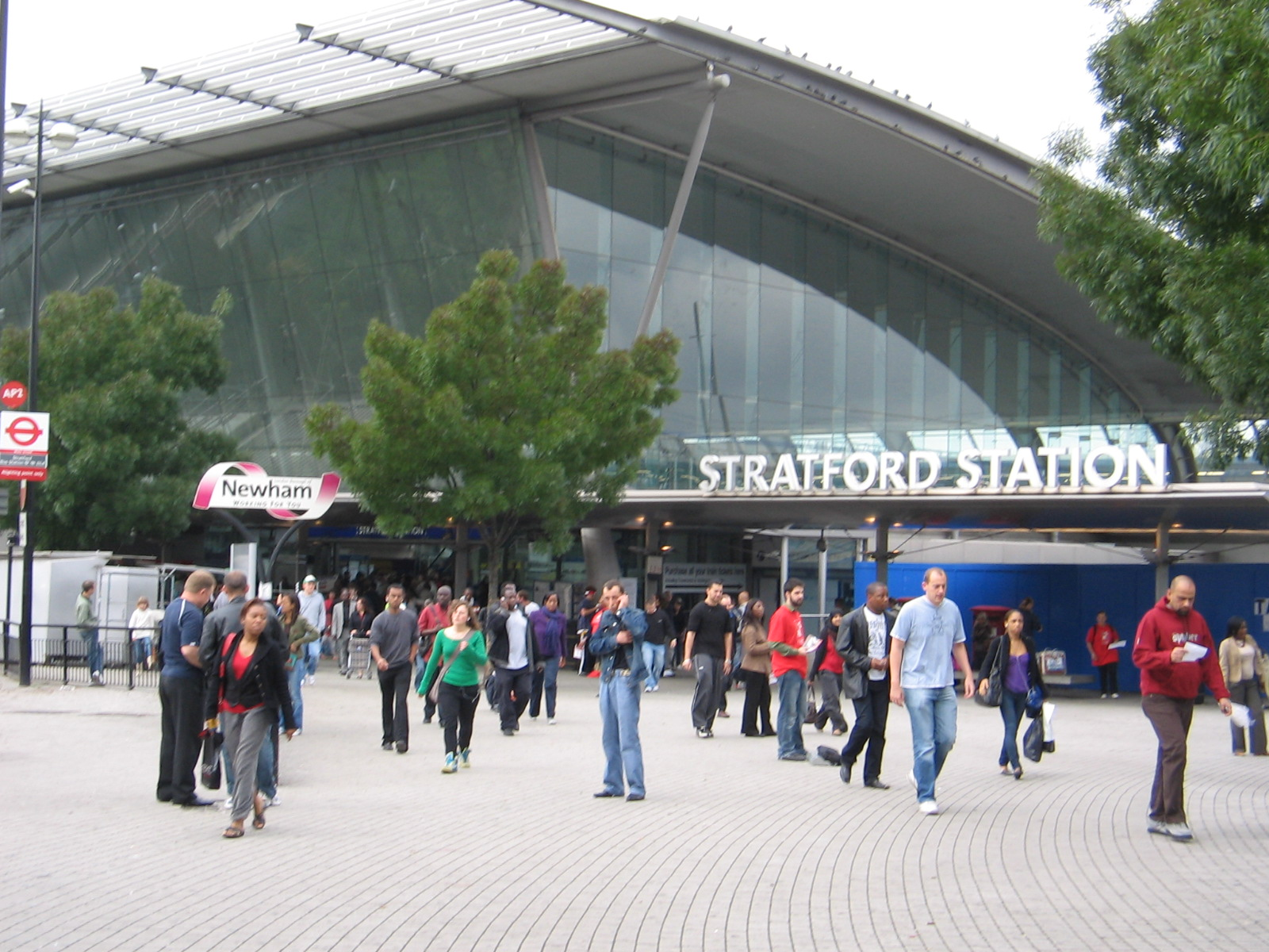 Entrance to the Stratford Station in London